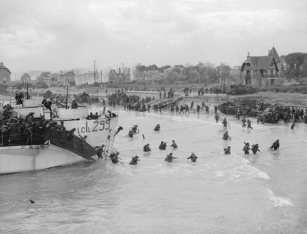 View looking east along 'Nan White' Beach, showing personnel of the 9th Canadian Infantry Brigade landing from LCI(L) 299 of the 2nd Canadian (262nd RN) Flotilla on D-Day